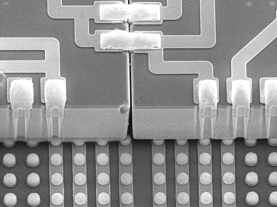 Quilt Packaging Nodules with Reflowed Solder on Flip-Chip Bump Bonds